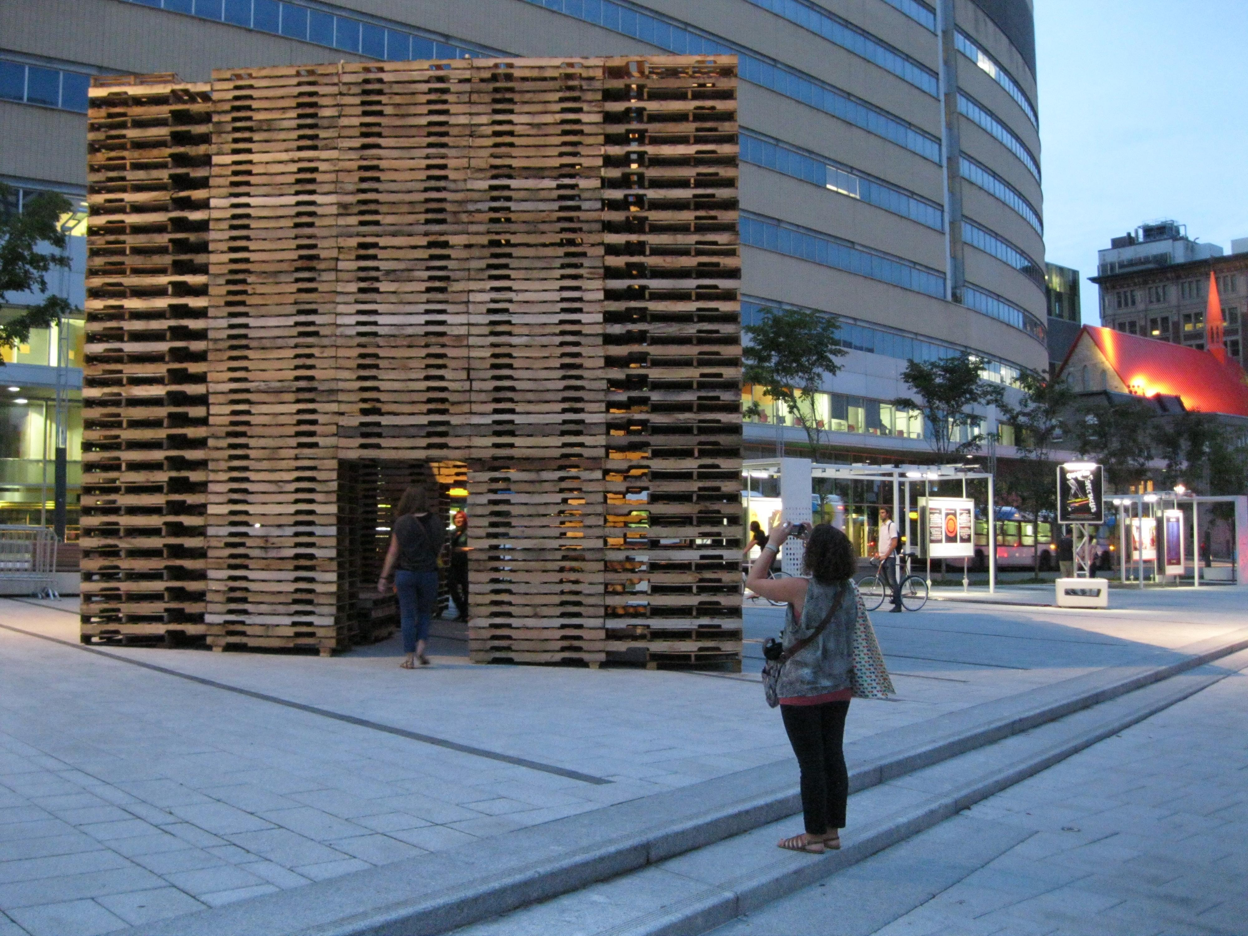 « A place of cubic mediation made with more than 750 pallets, Forêt represents, with its 4 cardinal points, the meeting and connection of the territories of our great country. A haven of peace in the city. »